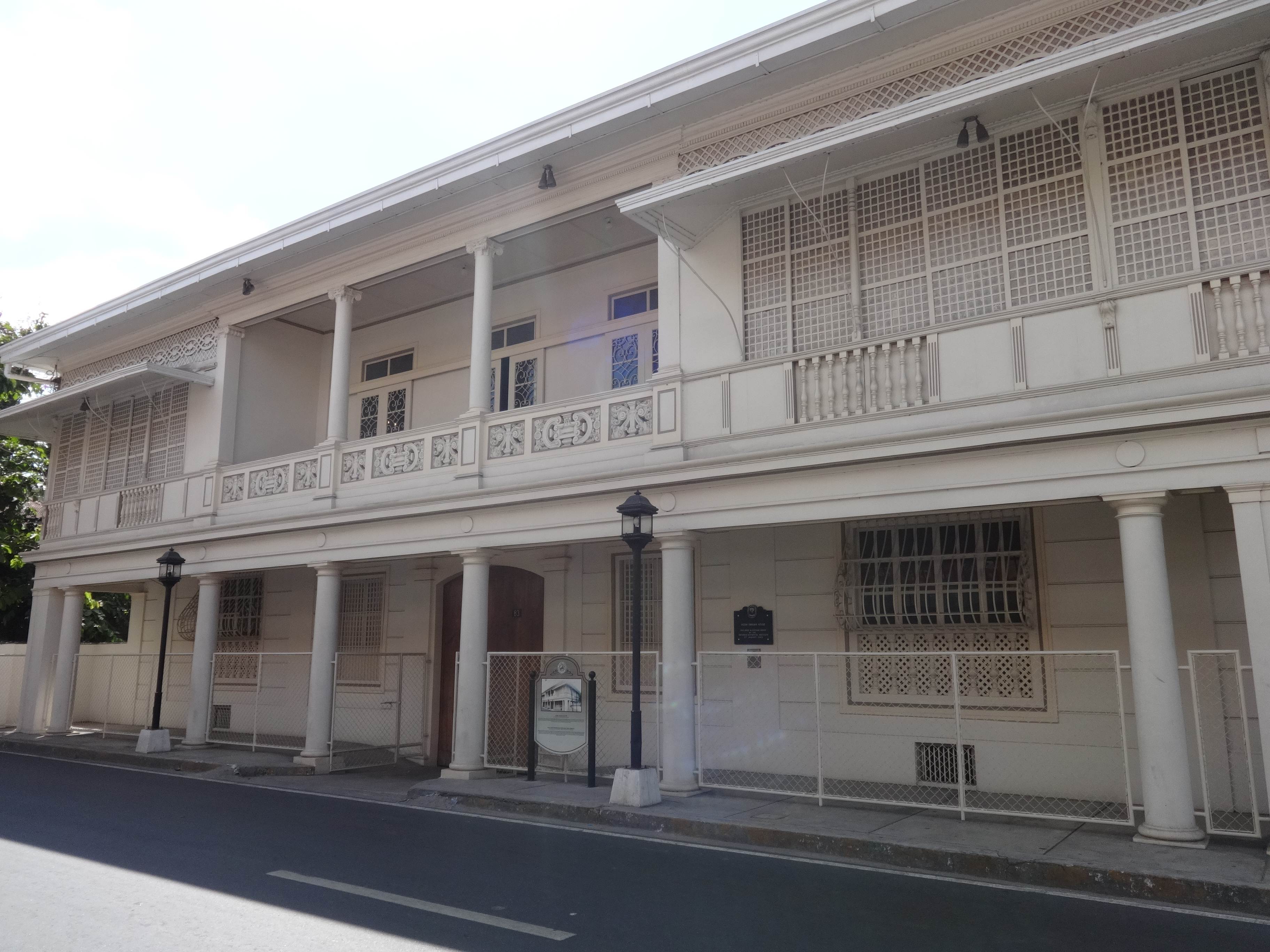 Hizon-Singian House at Consunji Street, Barangay Santo Rosario, City of San Fernando, Pampanga